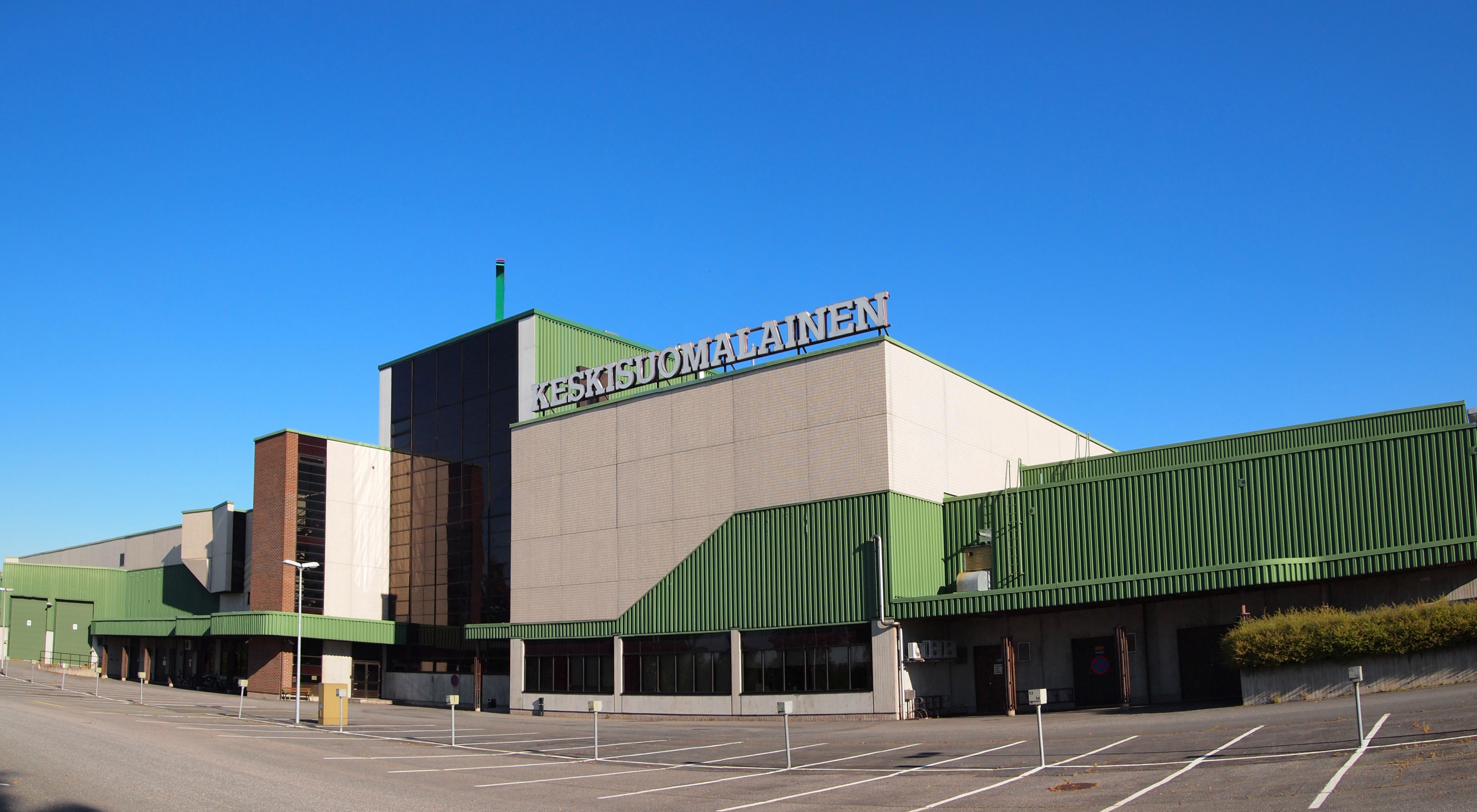 Keskisuomalainen building in Jyväskylä. This photograph was taken with a Olympus E-PL1.